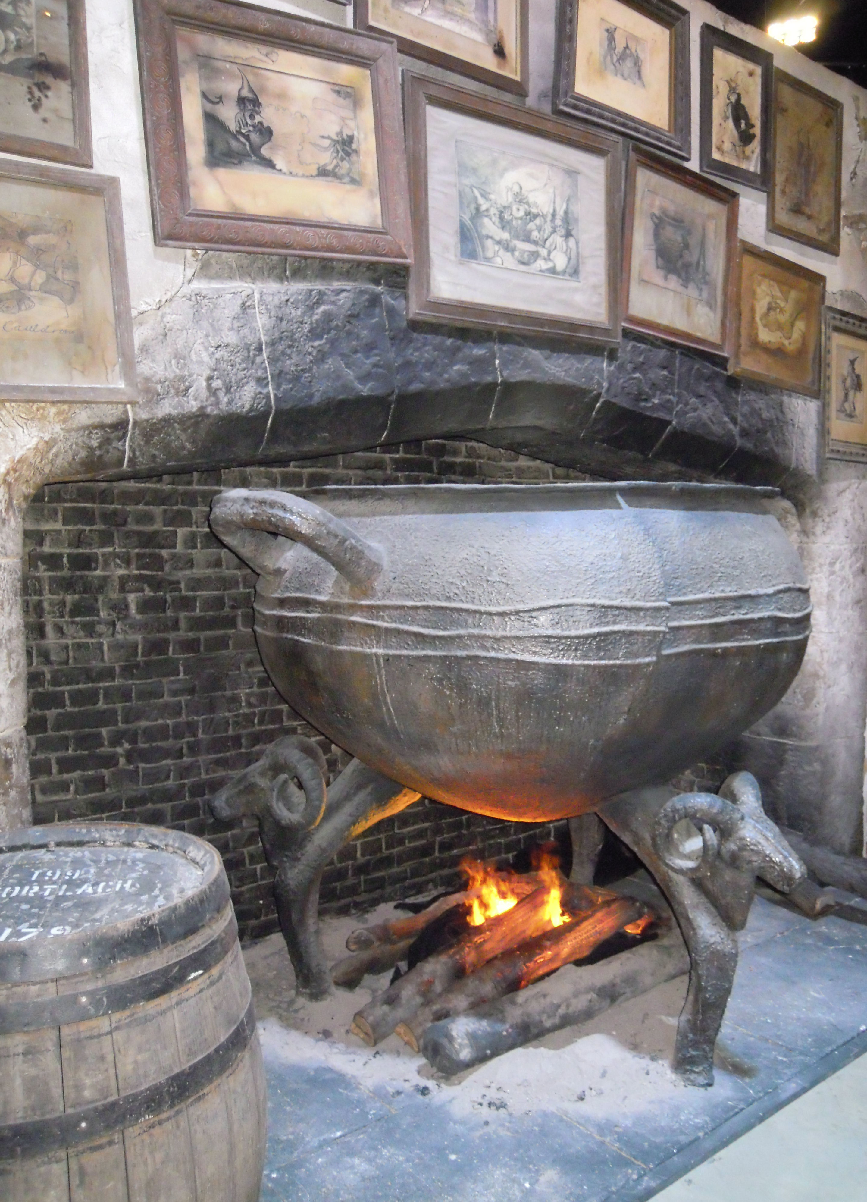 The Leaky Cauldron set, Diagon Alley. Harry Potter film set at Warner Bros. Studios, Leavesden, UK